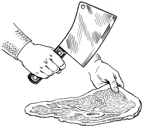 line art drawing of a cleaver.